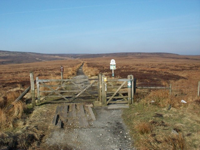 Pennine Way at A57 Snake Pass summit. Looking north along the Pennine Way path at A57 Snake Pass summit towards Crooked Clough.